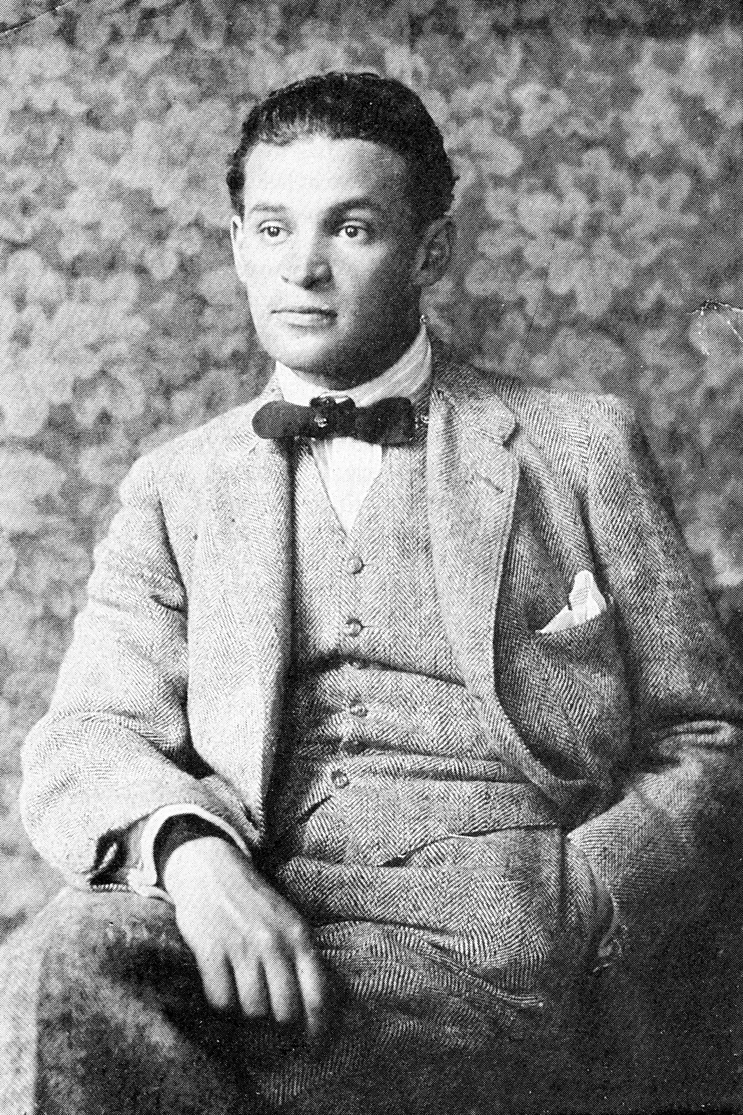 The Austrian actor Fritz Kortner (1892-1970) at the age of circa 19 years